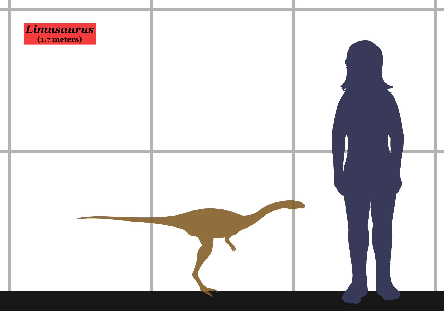 Size comparison between Limusaurus inextricabilis and a human.